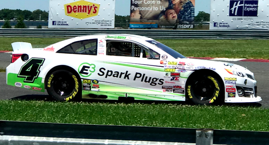 Chase Cabre at New Jersey Motorspots Park in 2018.